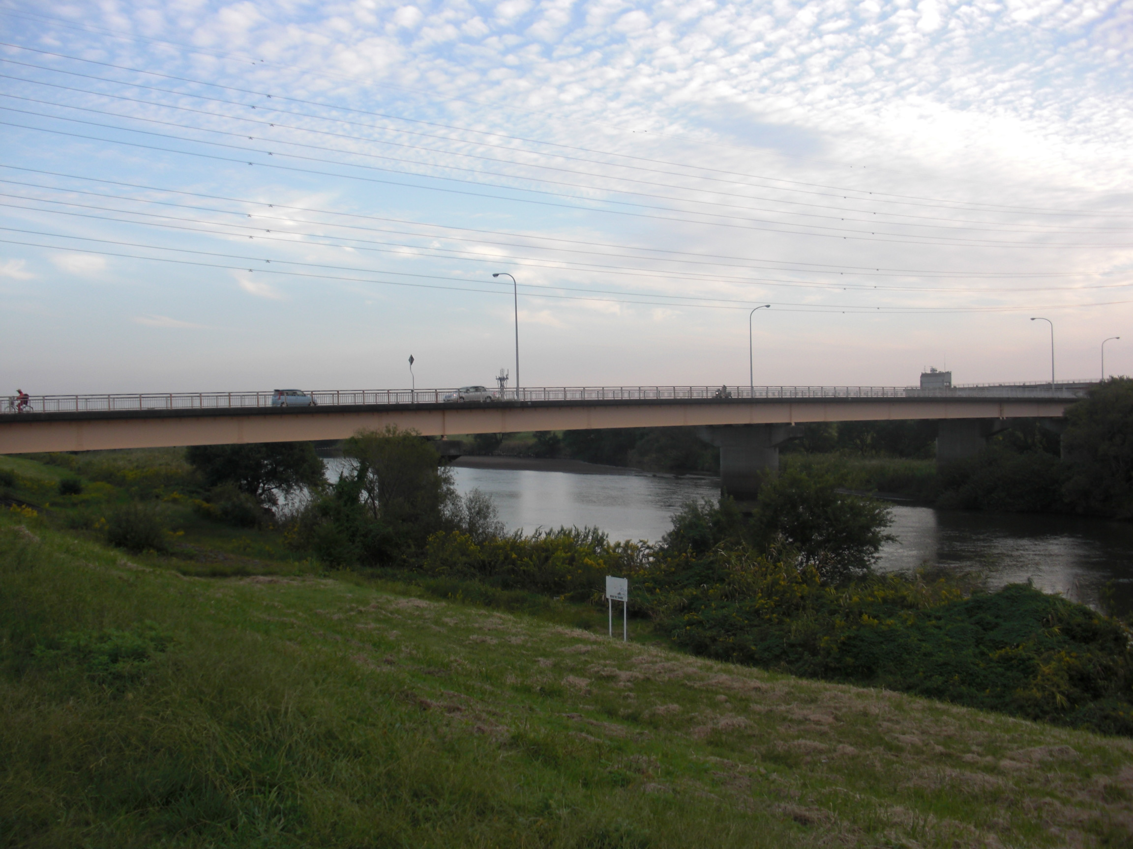 This is the Kokaigawa Bridge in Toride, Ibaraki, Japan.